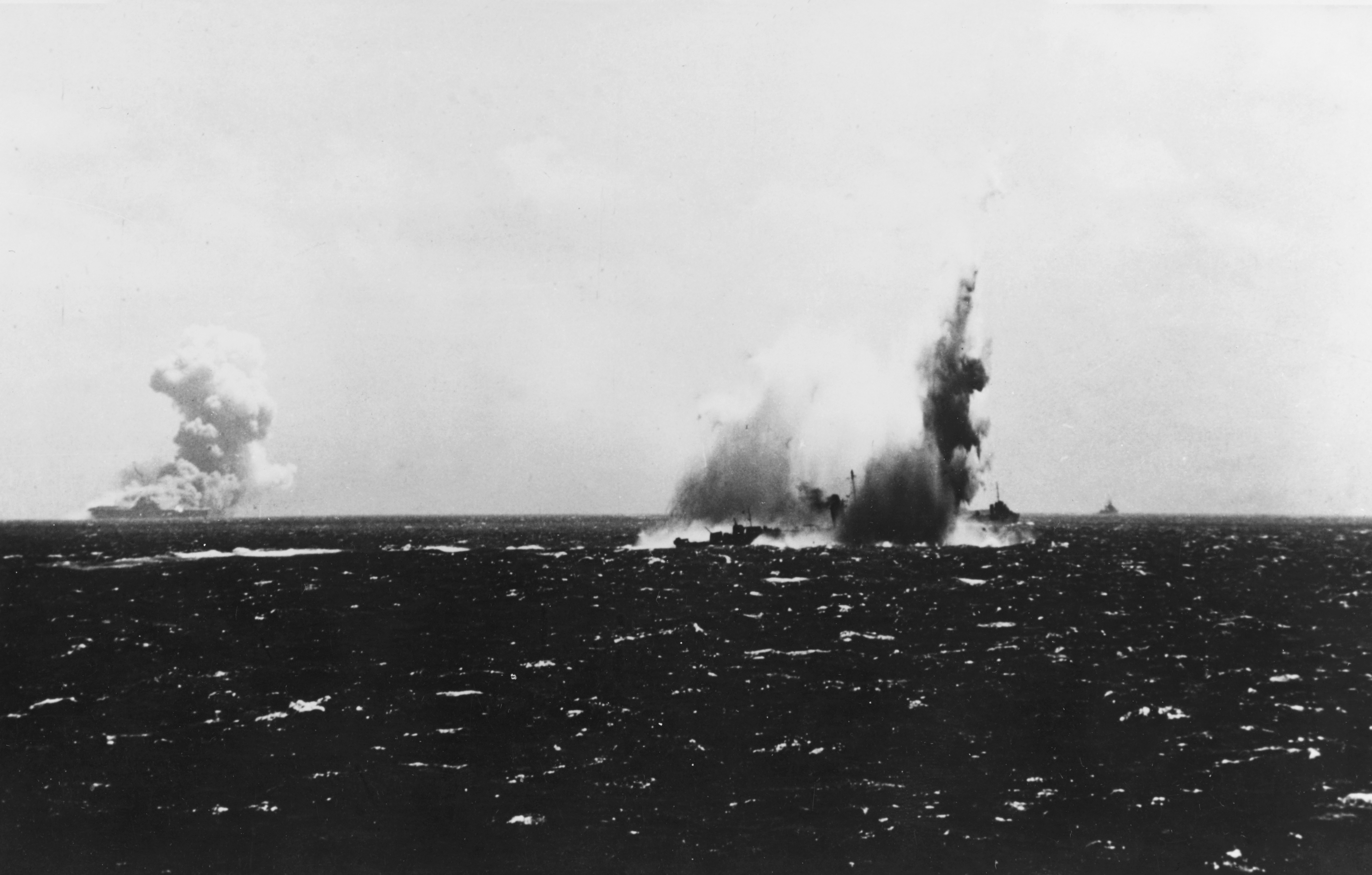 The U.S. Navy Sims-class destroyer USS O'Brien (DD-415) is torpedoed by the Japanese submarine I-19 during the Guadalcanal Campaign, on 15 September 1942. The aircraft carrier USS Wasp (CV-7), torpedoed a few minutes earlier, is burning in the left distance. The last of I-19's torpedoes hit the battleship USS North Carolina (BB-55). O'Brien was hit in the extreme bow, but "whipping" from the torpedo explosion caused serious damage to her hull amidships, leading to her loss on 19 October 1942, while she was en route back to the United States for repairs.